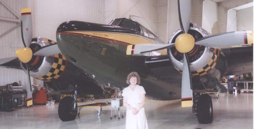 Howard 500 N500HP at Anoka airport, MN